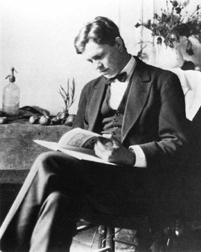 Guðmundur Thorsteinsson (last photograph)